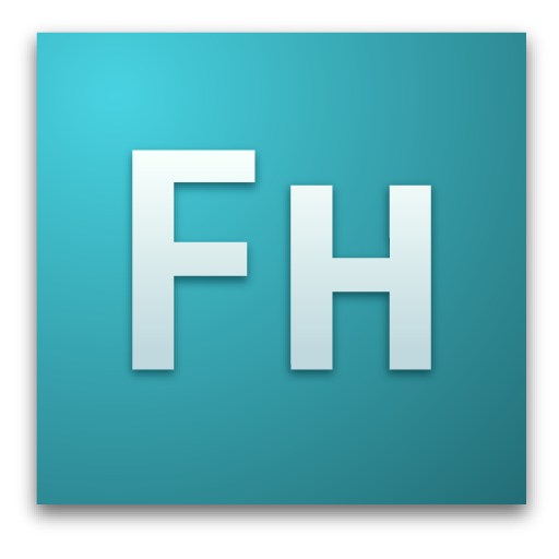 Adobe FreeHand